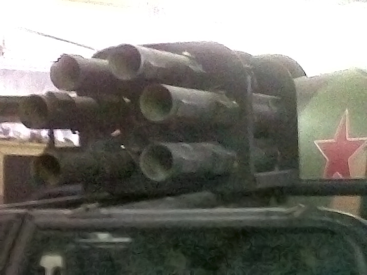 XR311 prototype recoilless rifle cluster, taken at at the Russell Military Museum